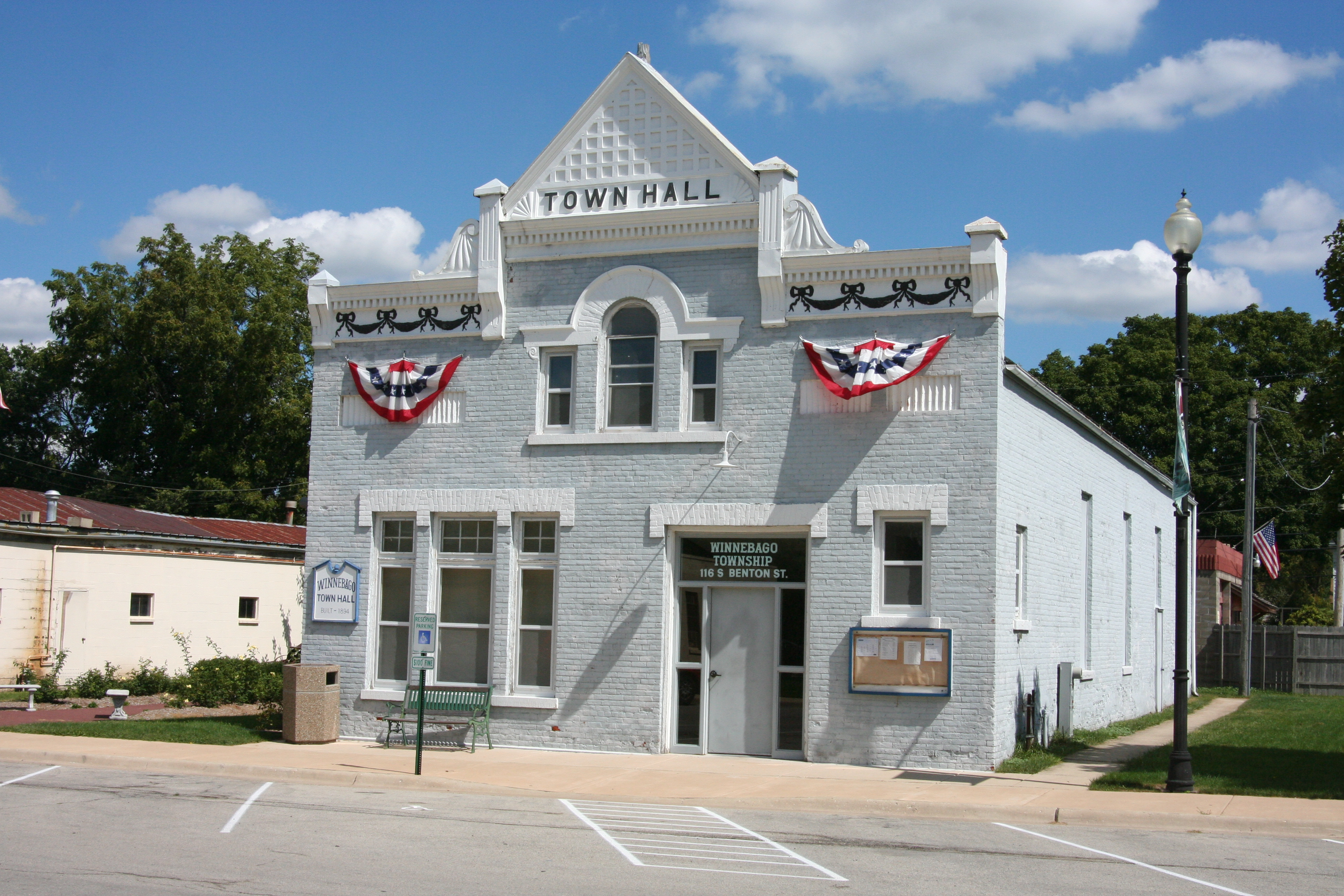 Photo of the Winnebago Township building in Winnebago, Illinois, USA.